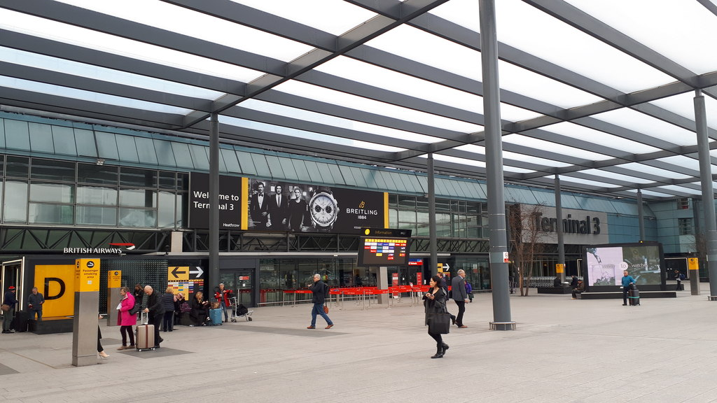 Forecourt of Heathrow Terminal 3